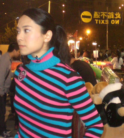 郭羨妮 visited Victoria Park on January 21, 2009.